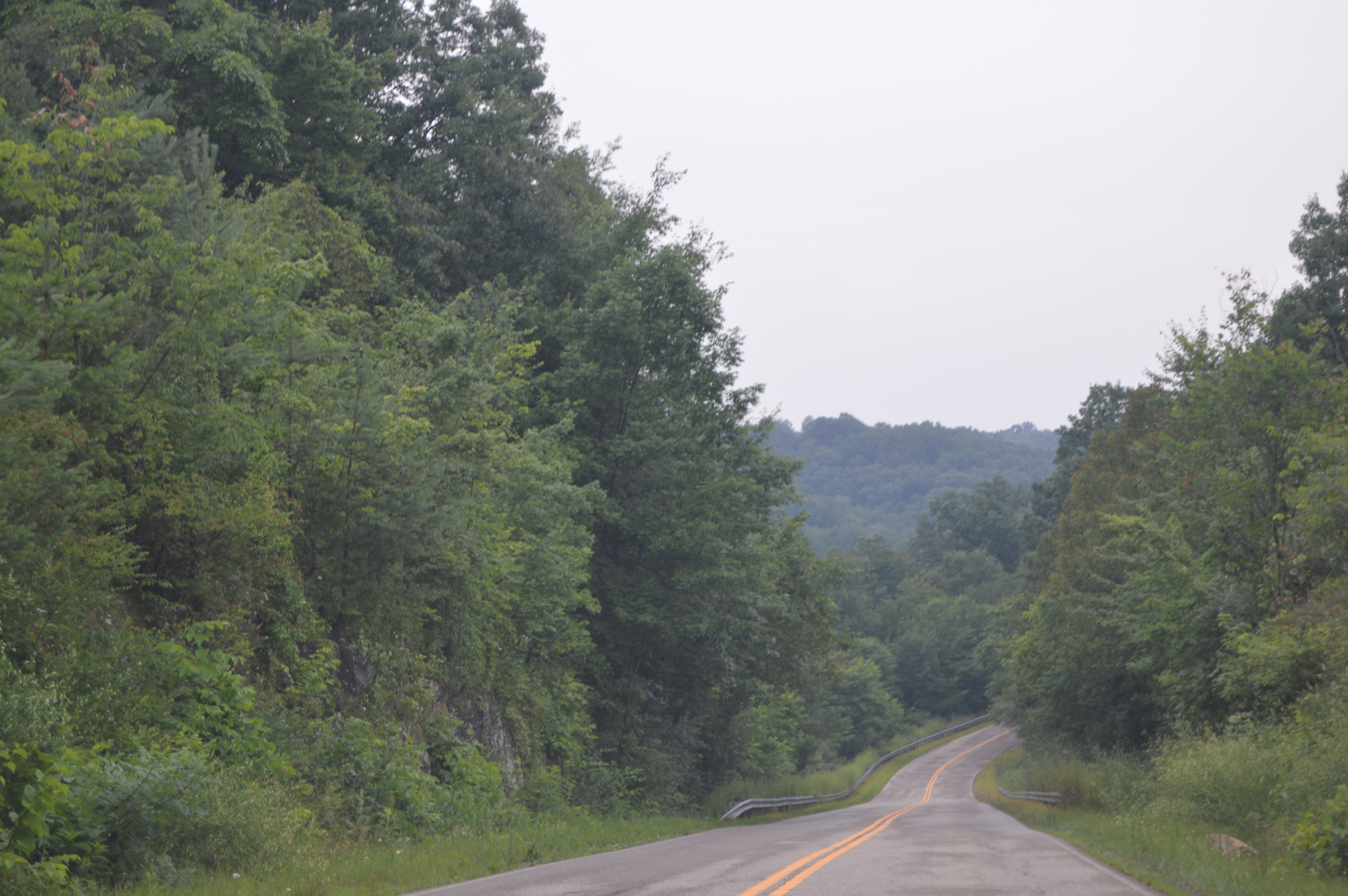 Woods along County Road 851 in western Monroe Township, Guernsey County, Ohio, United States.